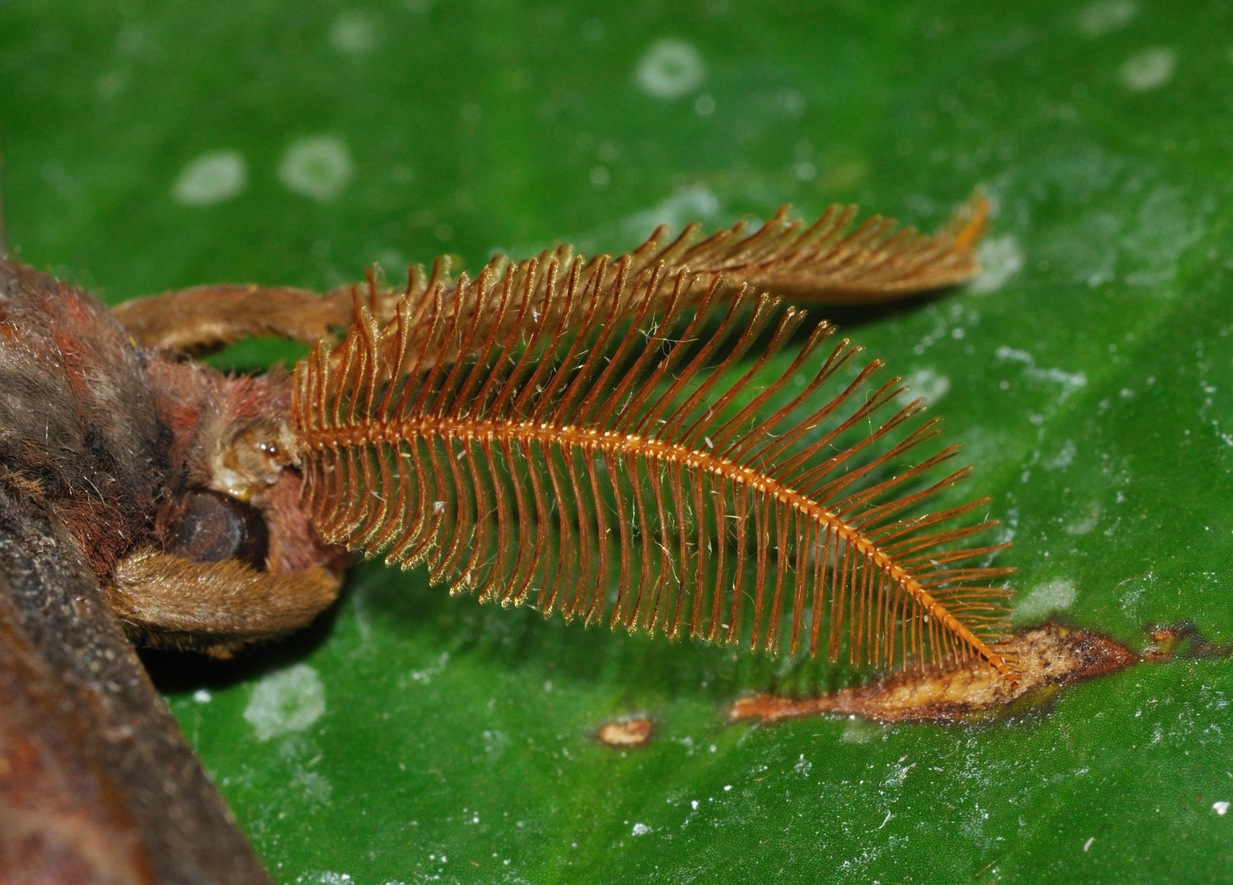 Antennae of an Atlas Moth (Attacus atlas) in the butterfly house of Maximilianpark Hamm, Germany.